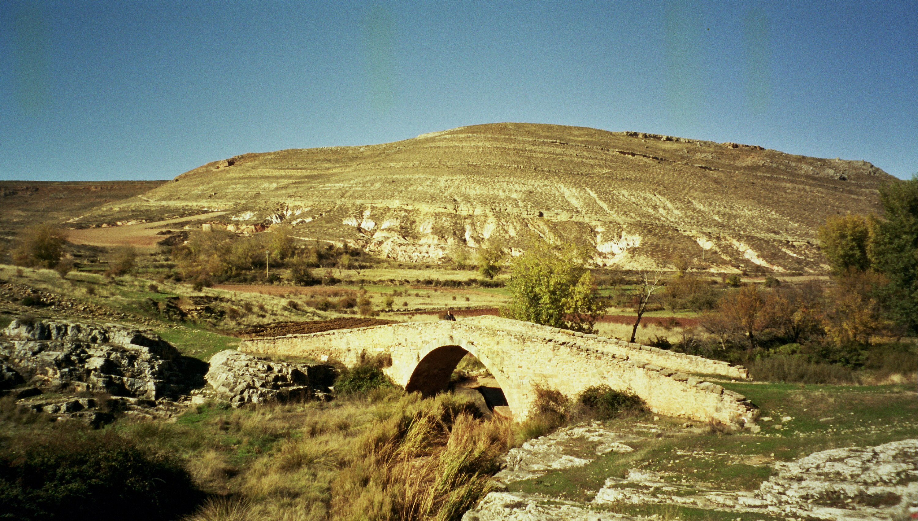 Medieval bridge at Caracena, Soria (Spain)